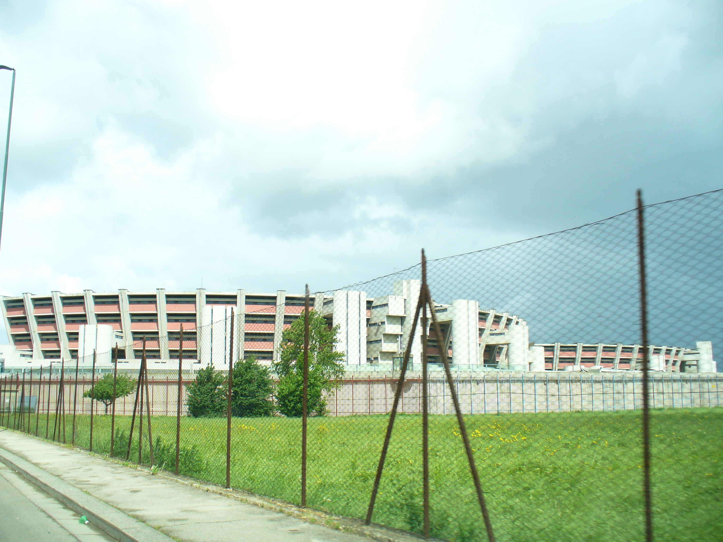 Sollicciano Prison (Florence)